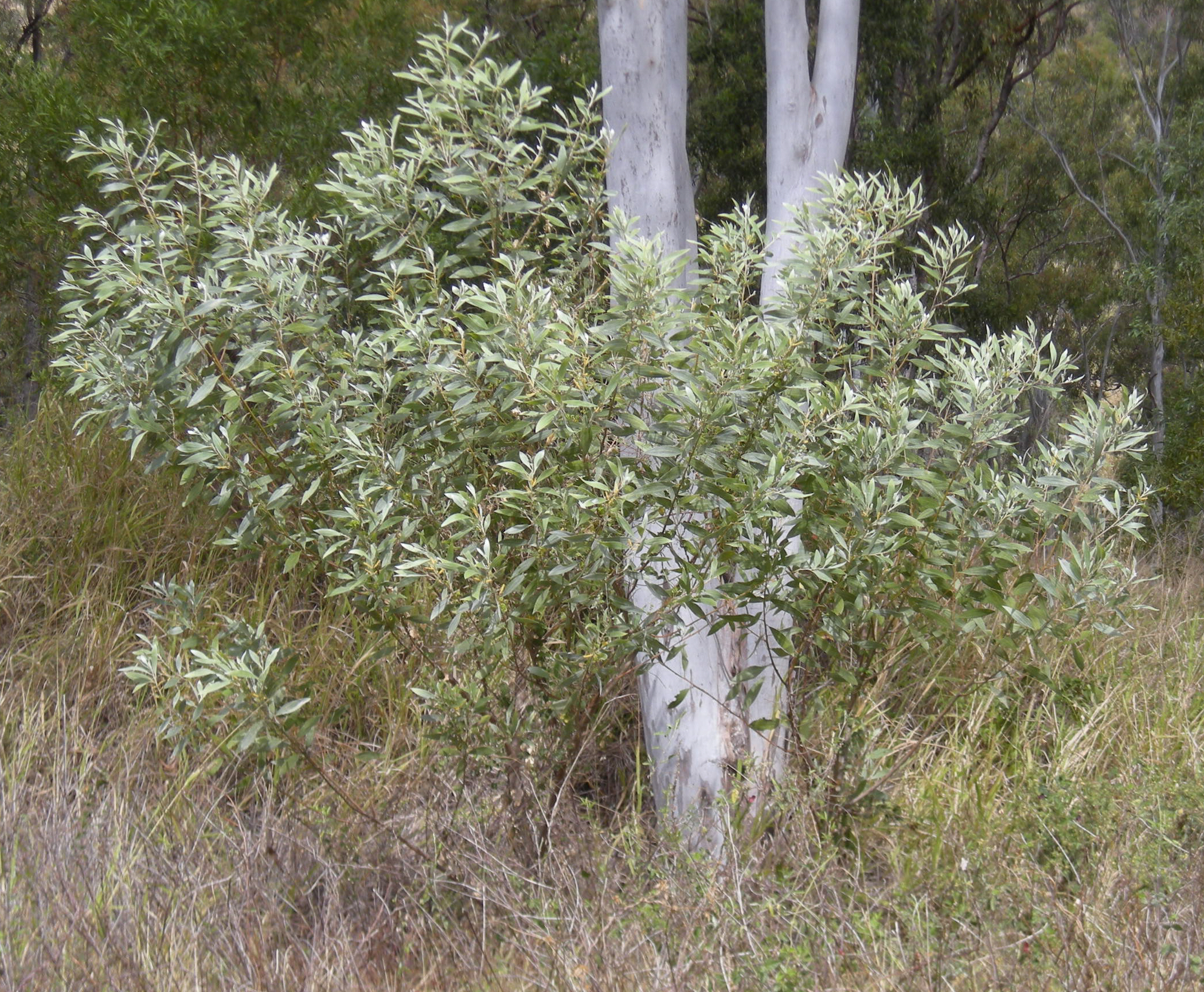 Acacia holosericea shrub, Mount Archer National Park, Rockhampton